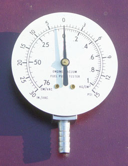 Mechanics of a pressure gauge, annotated